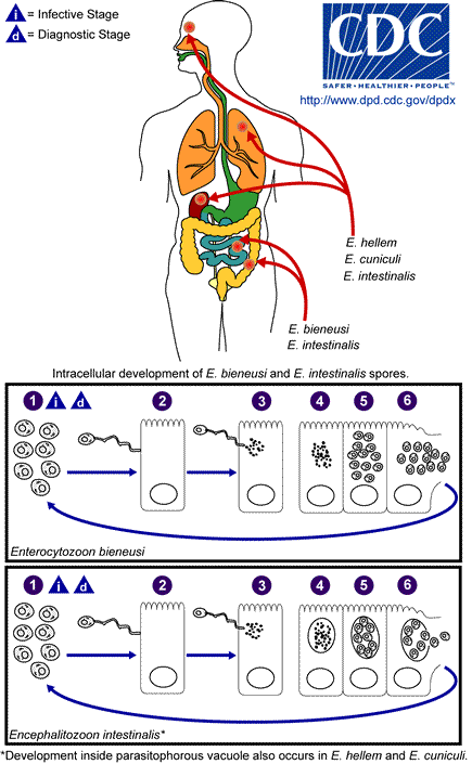 Life cycle of Encephalitozoon spp. and Enterocytozoon spp., the causative agents of Microsporidiosis.